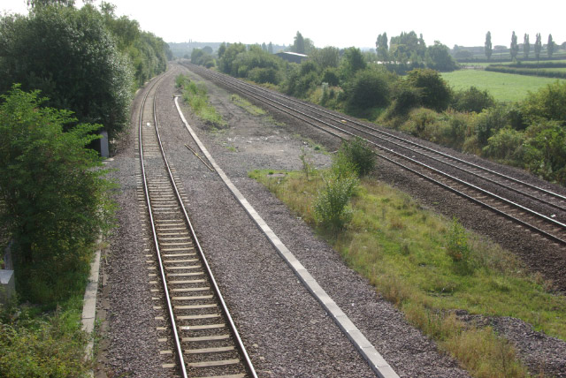 Site of Shipley Gate Station Although the Erewash Valley line, connecting Nottingham and Chesterfield, is still an important passenger and freight route, the intermediate passenger stations were closed in 1967 (two have since reopened). Shipley Gate, however, in this rather isolated spot, was a much earlier casualty, losing its service in August 1948.